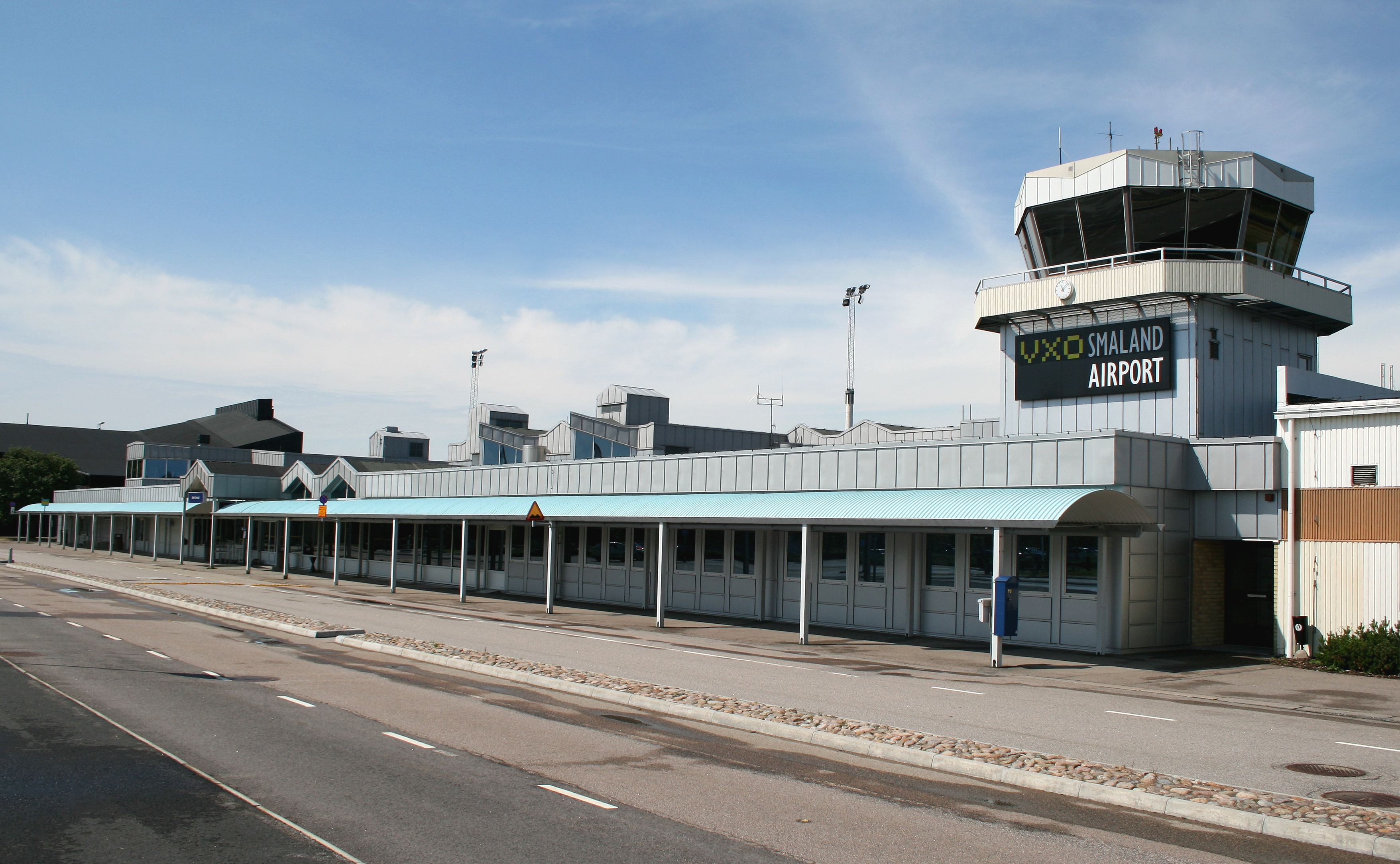 The terminal building at Smaland Airport in Växjö